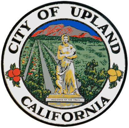 City of Upland, California official seal. Derived from photo of severely weathered plaque displayed at Cable Airport, Upland, California.